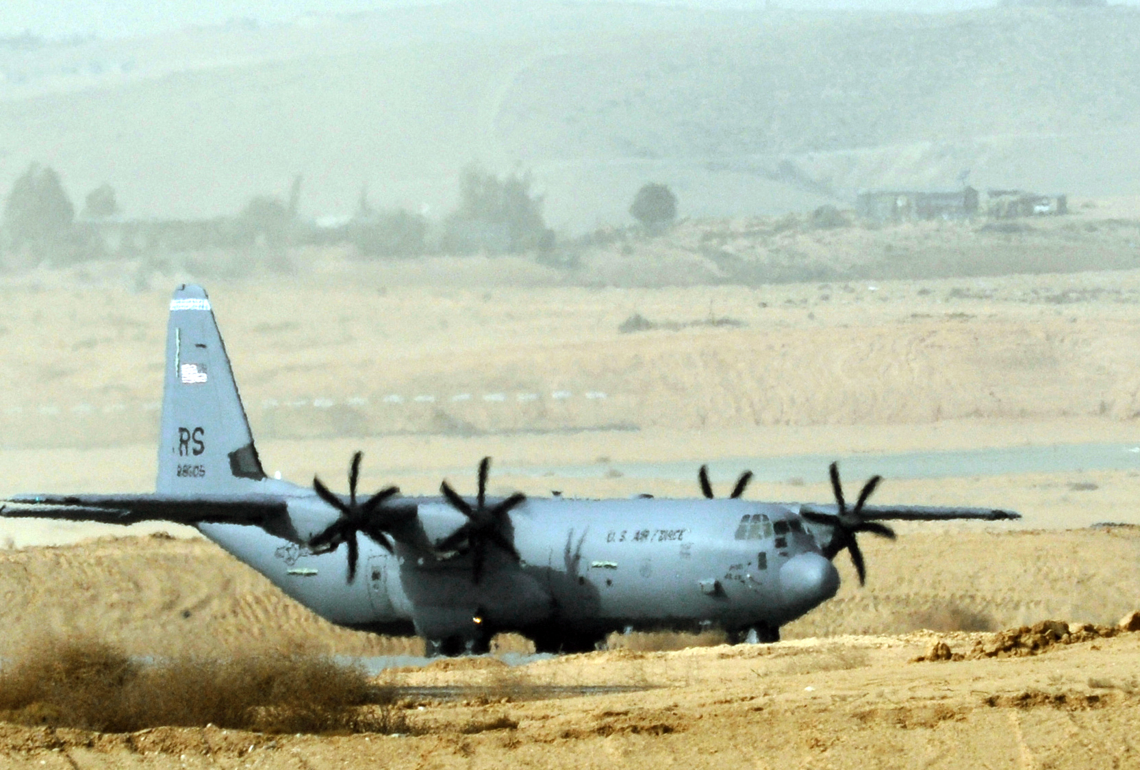 A U.S. Air Force Lockheed C-130J Hercules lands at Nevatim Air Force Base, Israel on 6 December 2009.